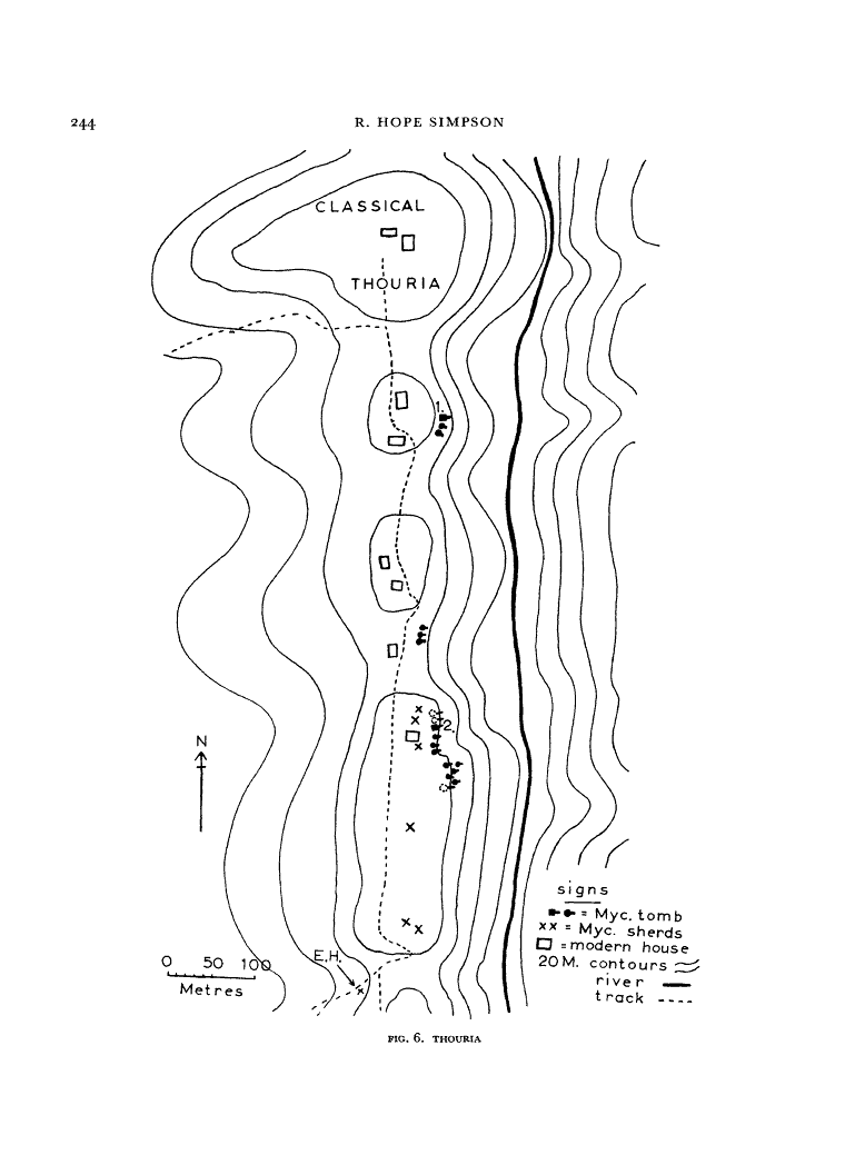 Аҧсшәа: Simpson, R. Hope